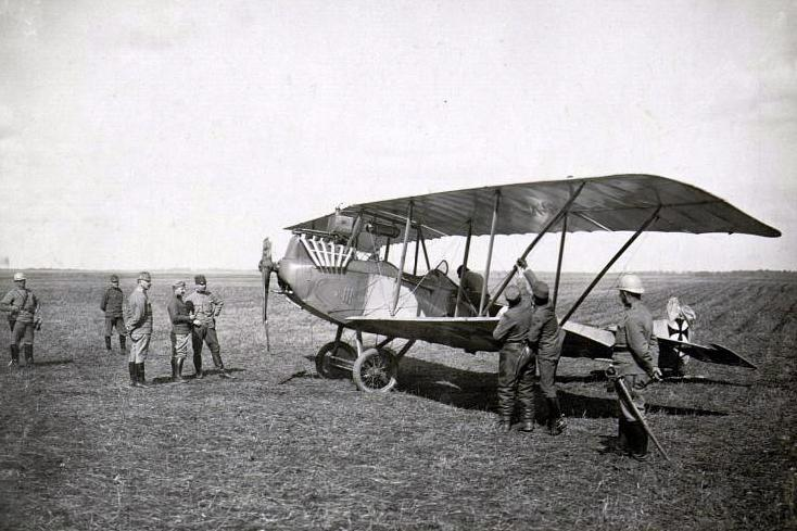 Eastern Front theatre of World War I in 1916